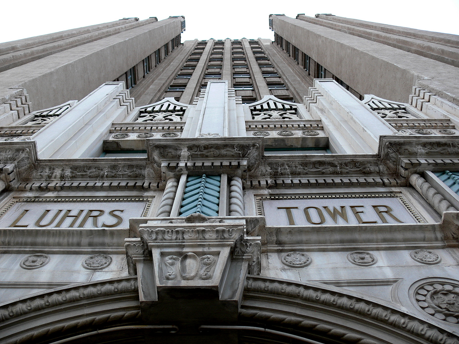 The image was personally taken by me in November 2006. Wars 17:08, 27 November 2006 (UTC)